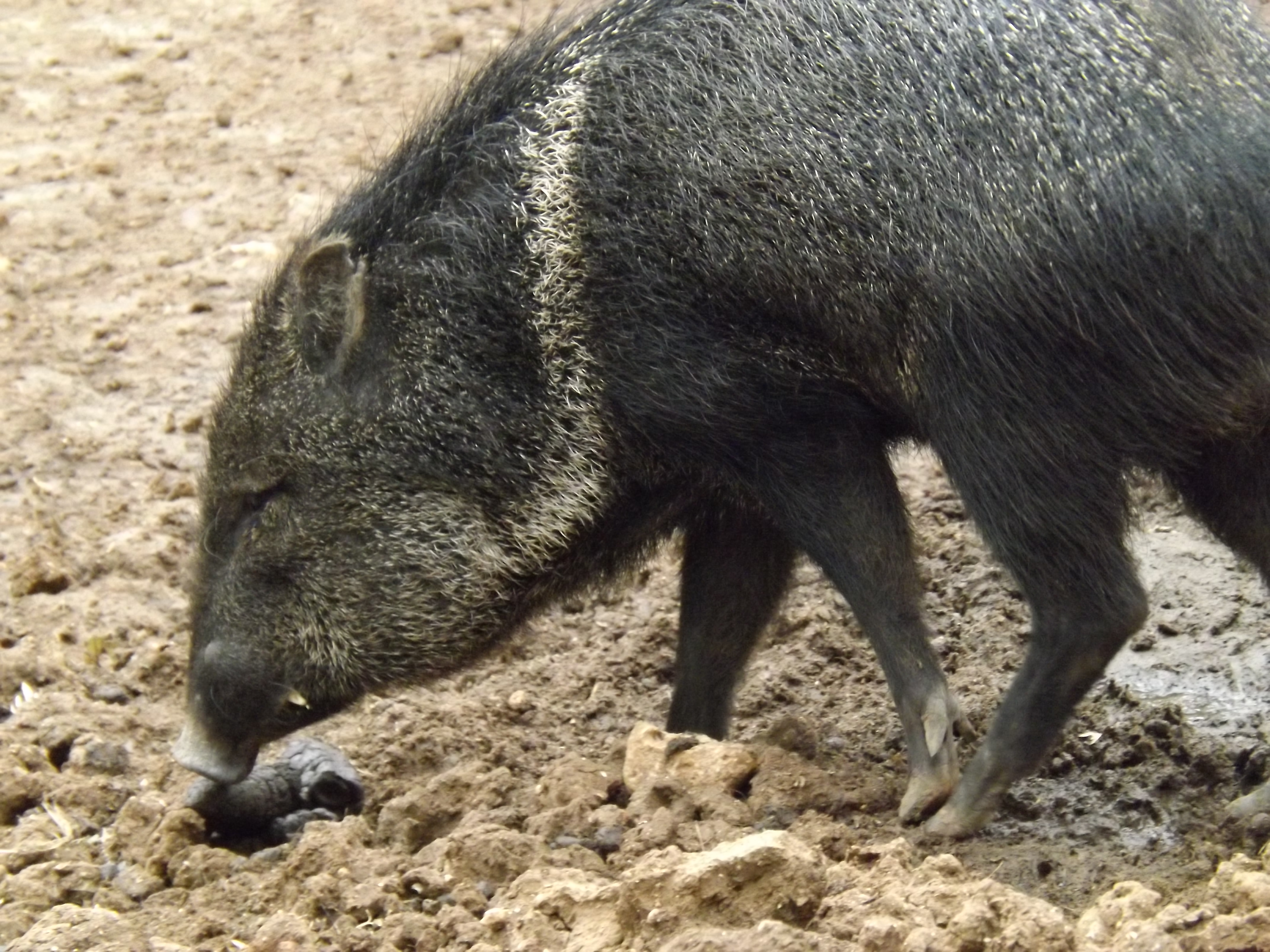 A Collared Peccary (Pecari tajacu) at the Jerusalem Biblical Zoo.